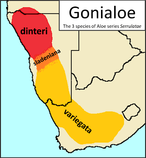 Distribution map of genus as Gonialoe. Formerly aloes variegata sladeniana and dinteri.